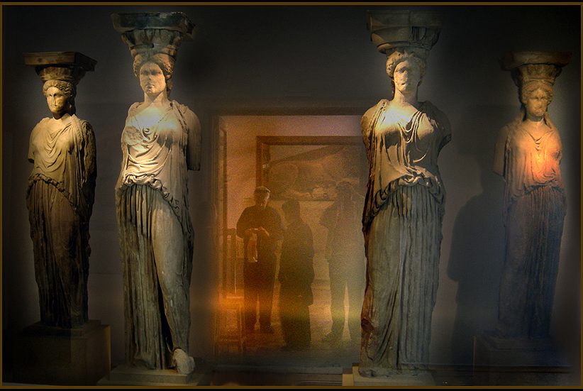 Original Caryatids from the Erechtheum, now on display at Acropolis Museum, Athens, behind a disturbing glass wall